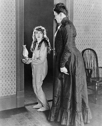 Still from the film Pollyanna (1920) with Mary Pickford and Katherine Griffith.